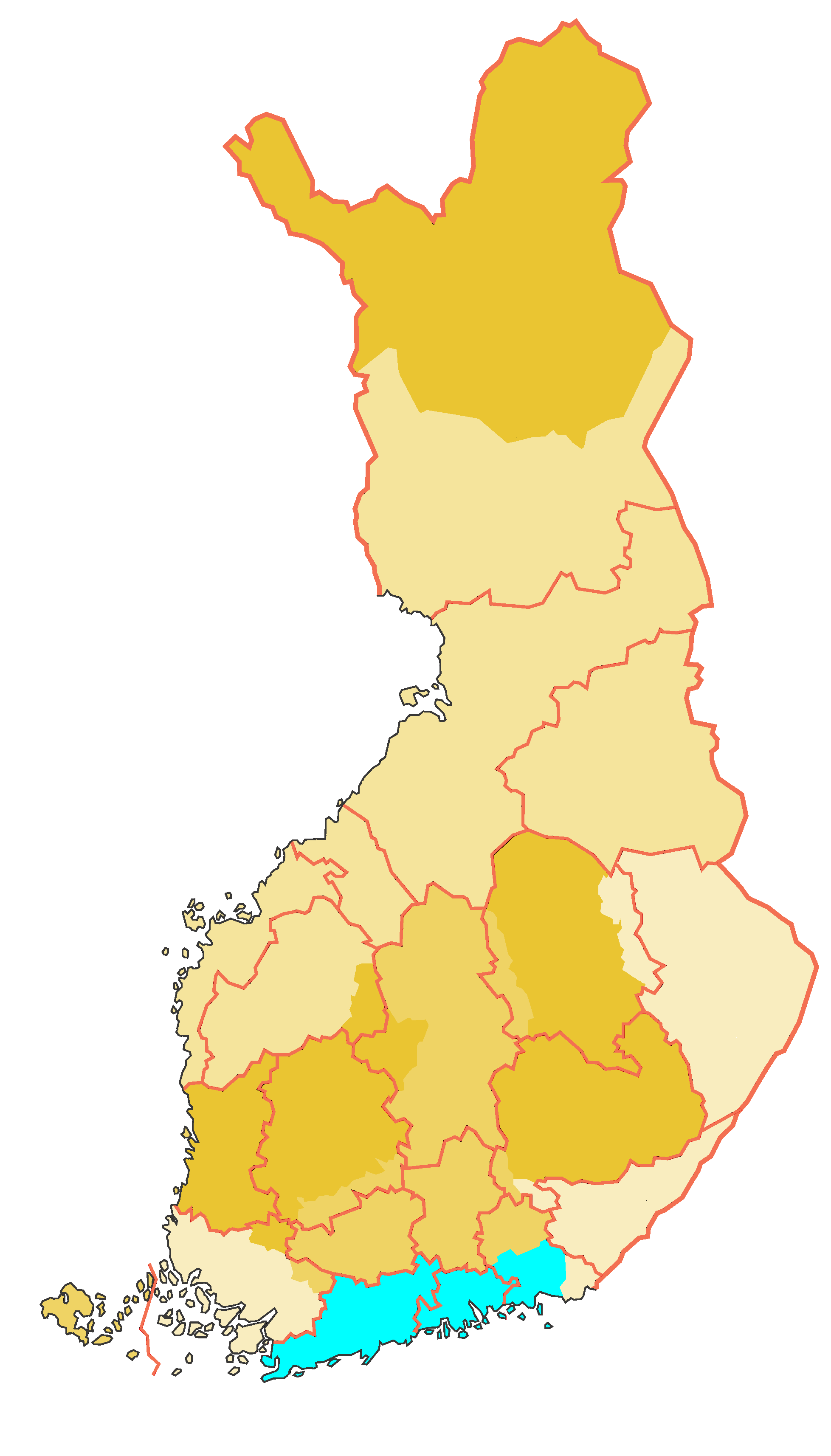 Historical province of Uusimaa in Finland